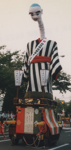 Yokkaichi-festival, Yokkaichi, Mie Prefecture, Japan